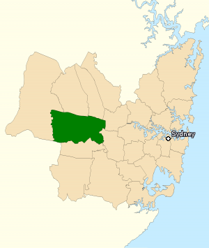 Division of McMahon 2010. This image incorporates data that is: © Commonwealth of Australia (Australian Electoral Commission)